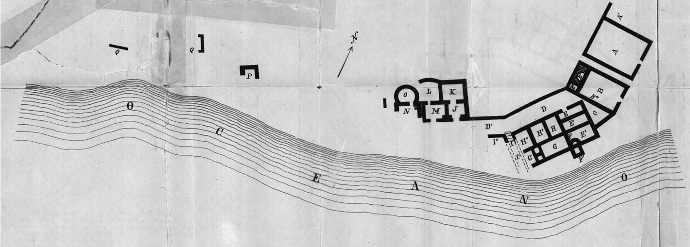 Floor plan of a ancient roman town in Boca do Rio, at the Vila do Bispo municipality, in southern Portugal. This image was published in the work "O Archeologo Português", series I, volume XV, of 1910, provided by Direcção Geral do Património Cultural.